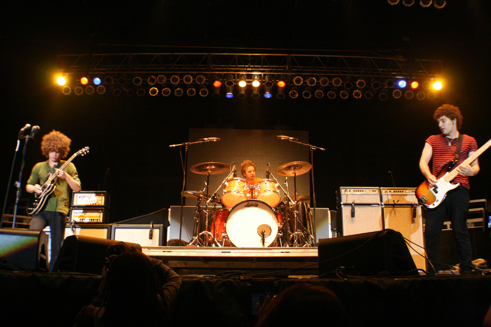 The original lineup of Wolfmother performing at the Beale Street Music Festival on 5 May 2007.